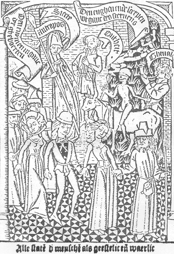 Anonymous. Alle state d'mensche als geestelic en waerlic. From Pierre Michault (1482) Vanden drie blinden danssen, Gouda: s.n.